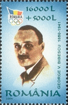 Stamps of Romania, 2004